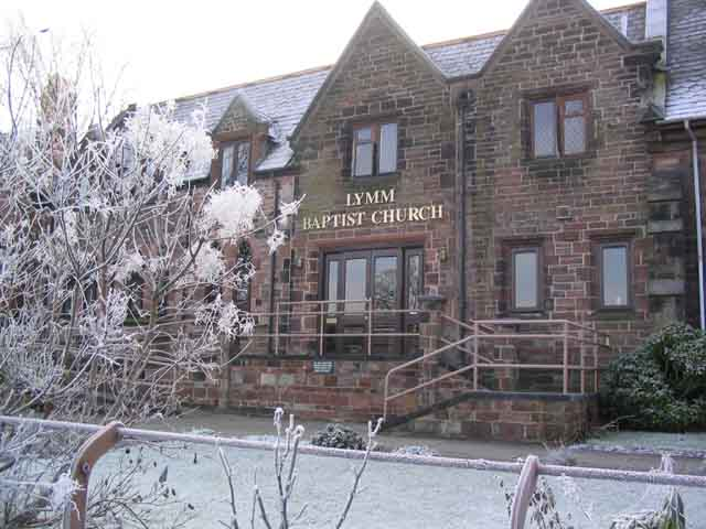 Lymm Baptist Church in snow